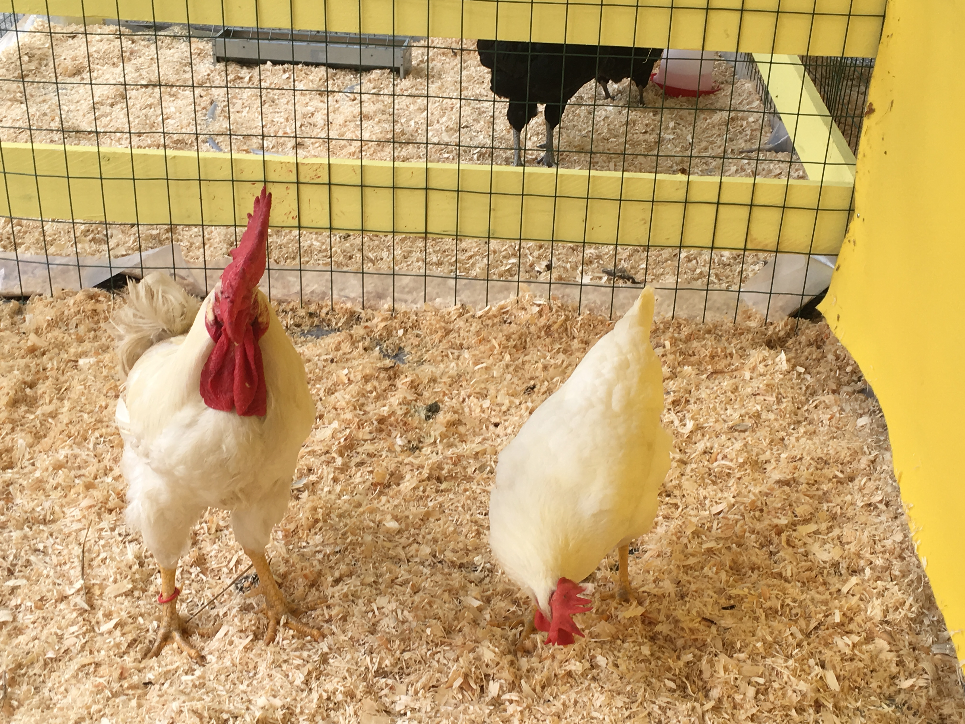 Valdarnese Bianca chickens at the Rural Festival, Gaiole in Chianti, Tuscany, Italy, 17–18 September 2016